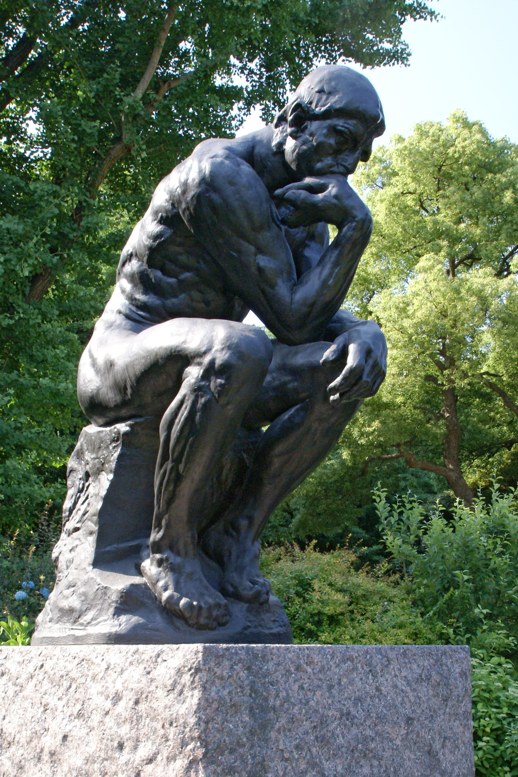 Rodin's "The Thinker" in front of the National Museum of Western Art at Ueno, Taito-ku, Tokyo, Japan